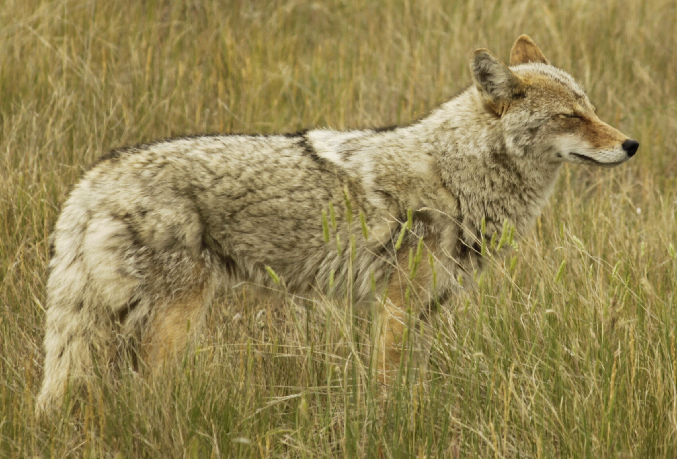 Coyote